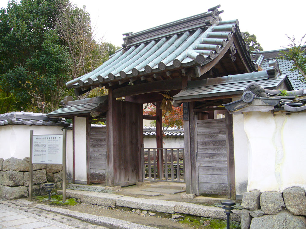 Taisanji Jojuin, Kobe, Hyogo, Japan